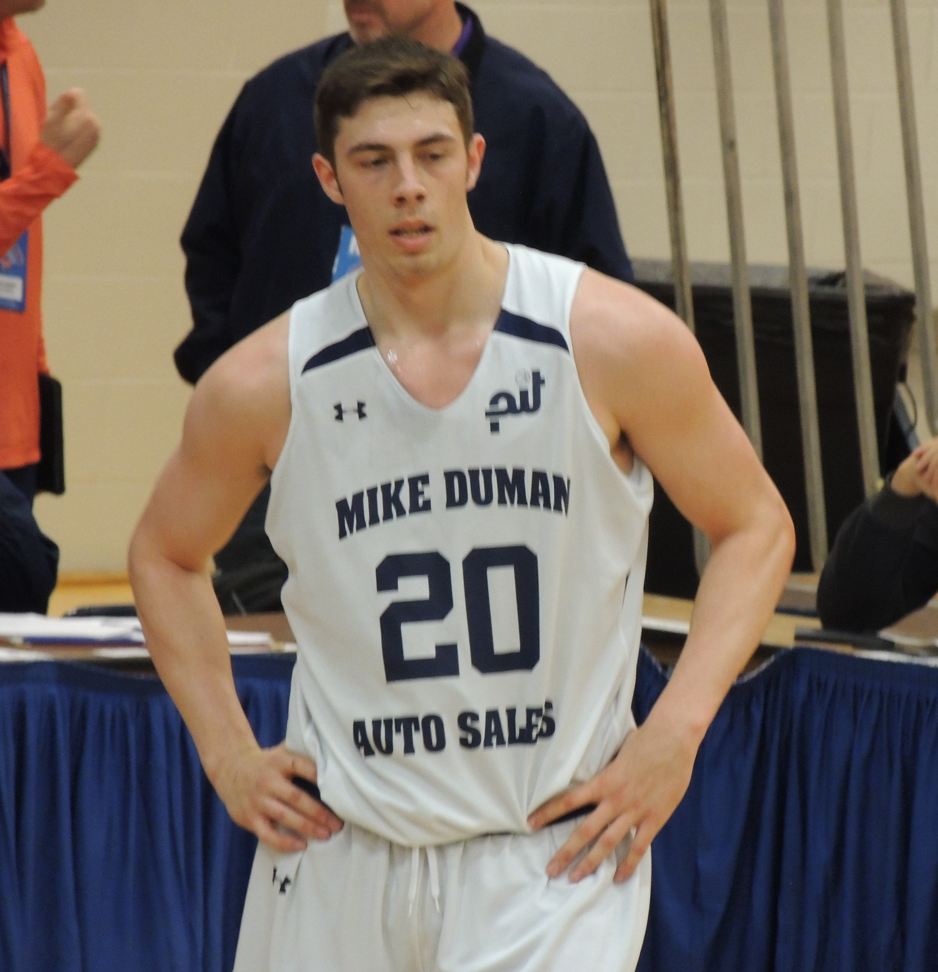 American basketball player Nick Mayo of the Eastern Kentucky Colonels at the 2019 Portsmouth Invitational